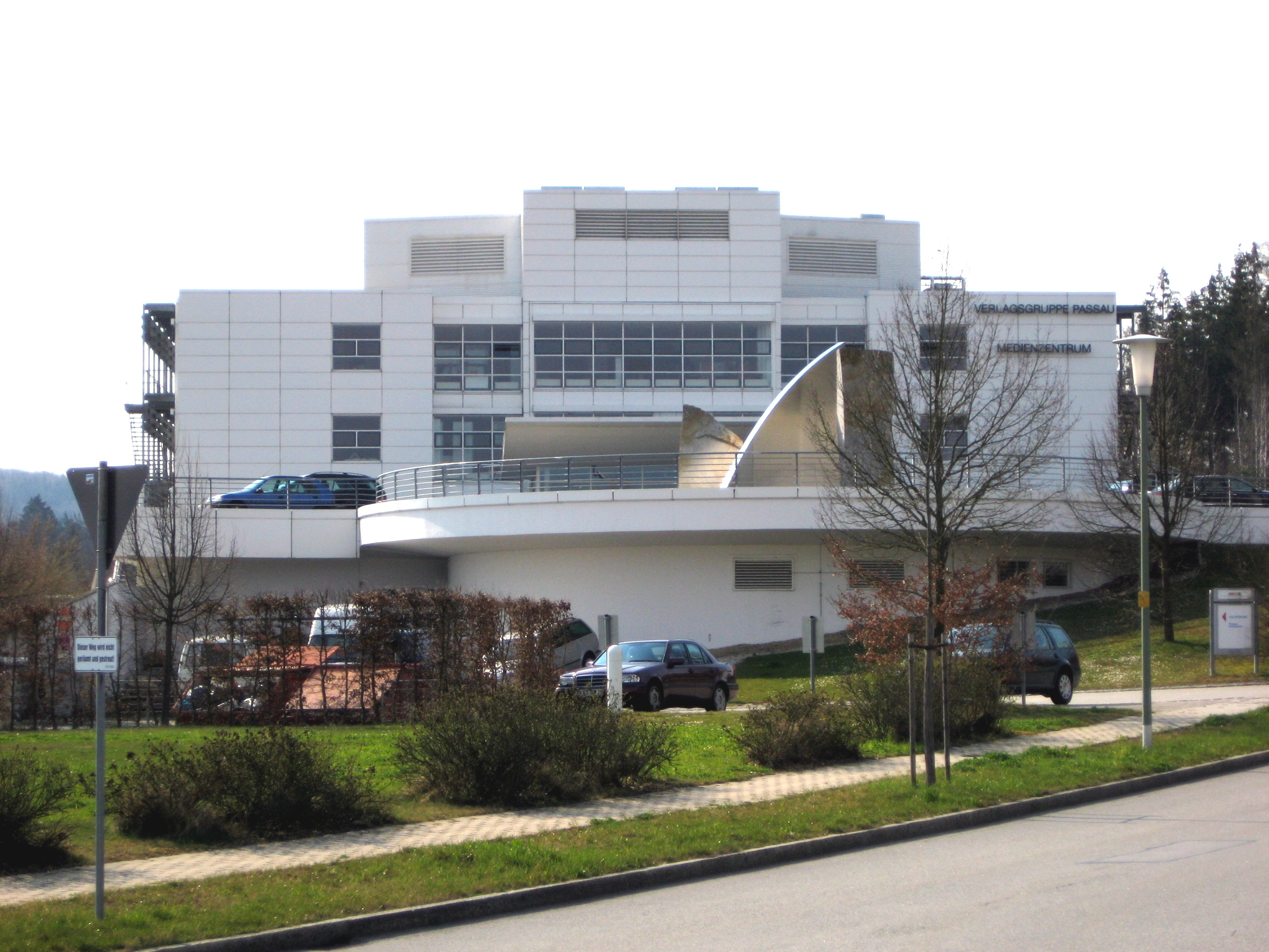 Media center of publishing group Passau